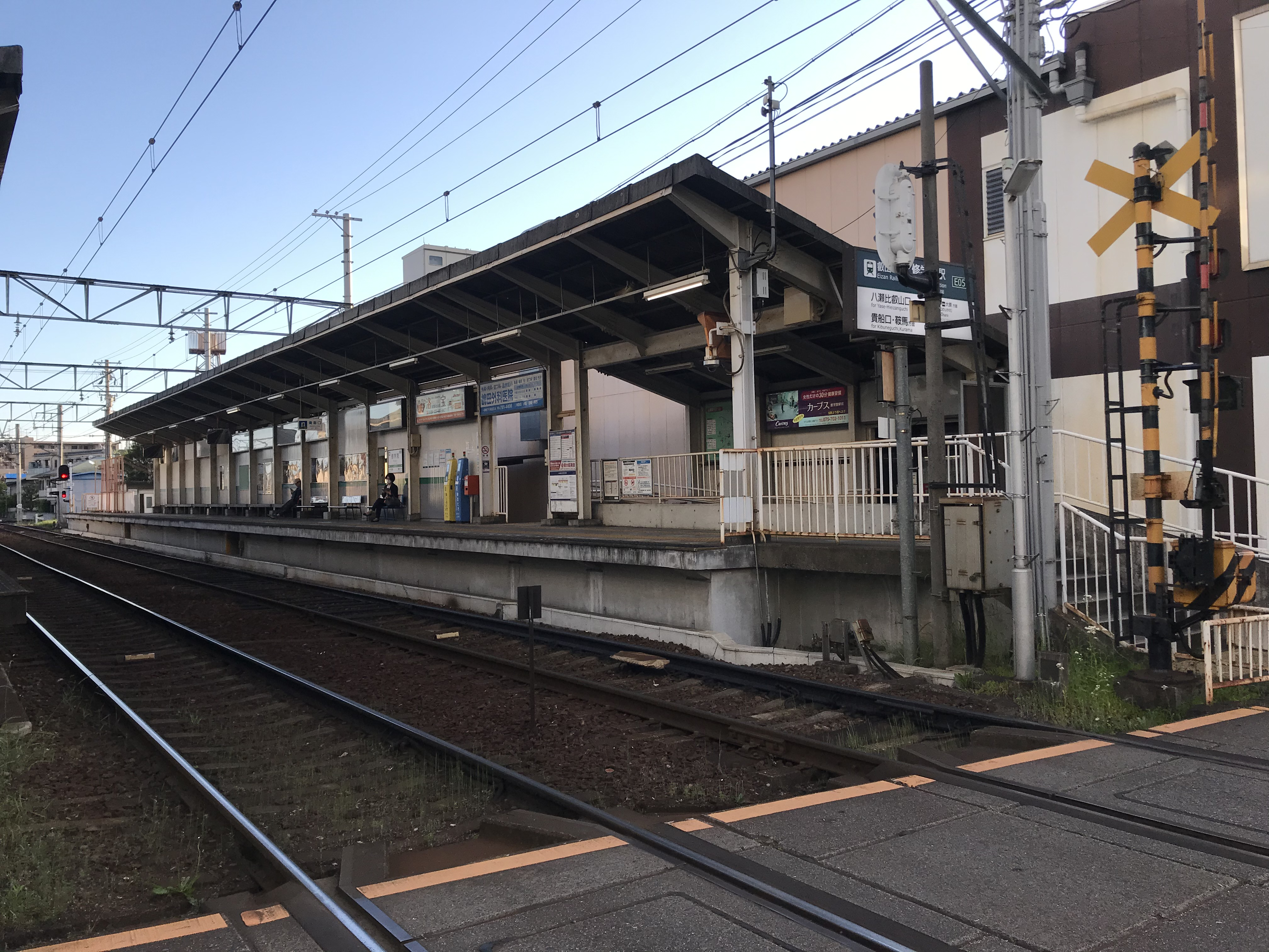 Eizan Electric Railway Shugakuin station Yase Hieizan guchi and Kurama bound platform viewing from northeast